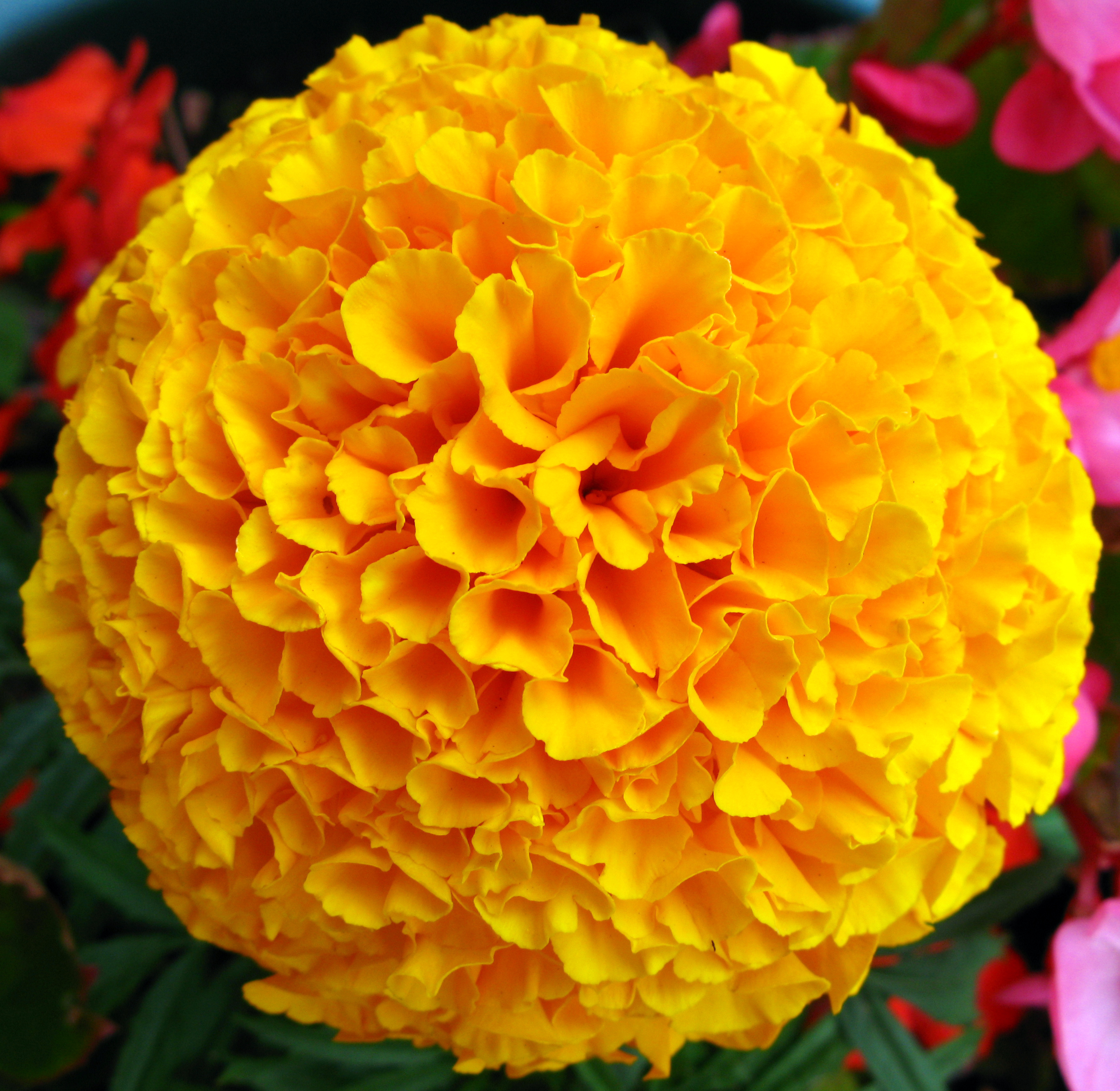 Photo I took last Summer (2007) the flower was growing in a patio pot.